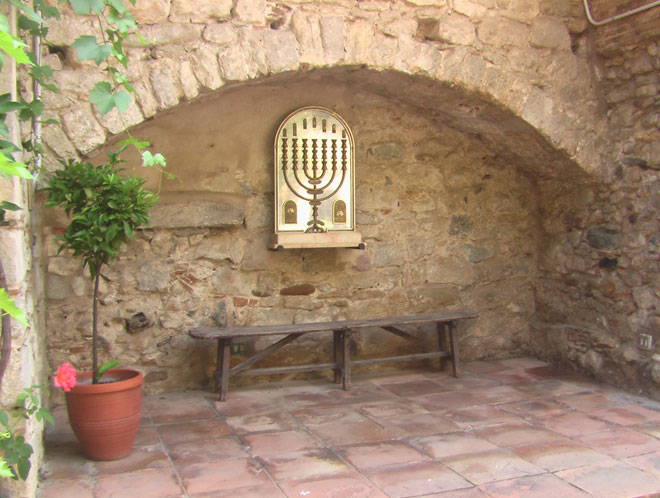 The Jewish Historical Museum in Gerona. Credit: Courtesy of Arie Darzi to memorialize the Jewish communities in Spain.